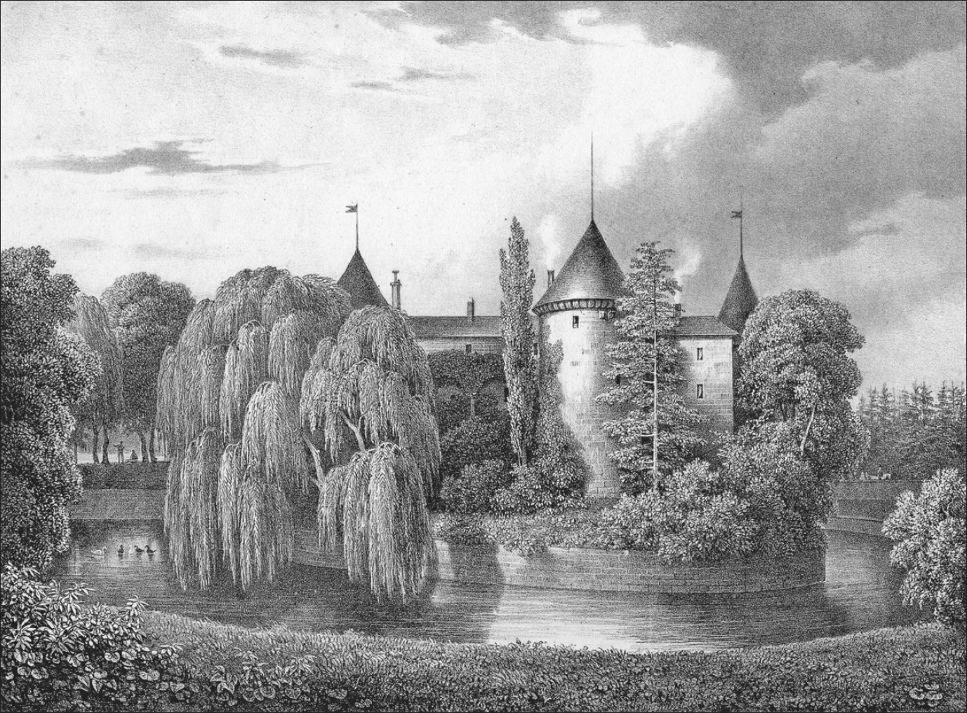 Isidore Laurent Deroy, La Grange East View, lithograph, c. 1825, after a painting by Alvan Fisher.